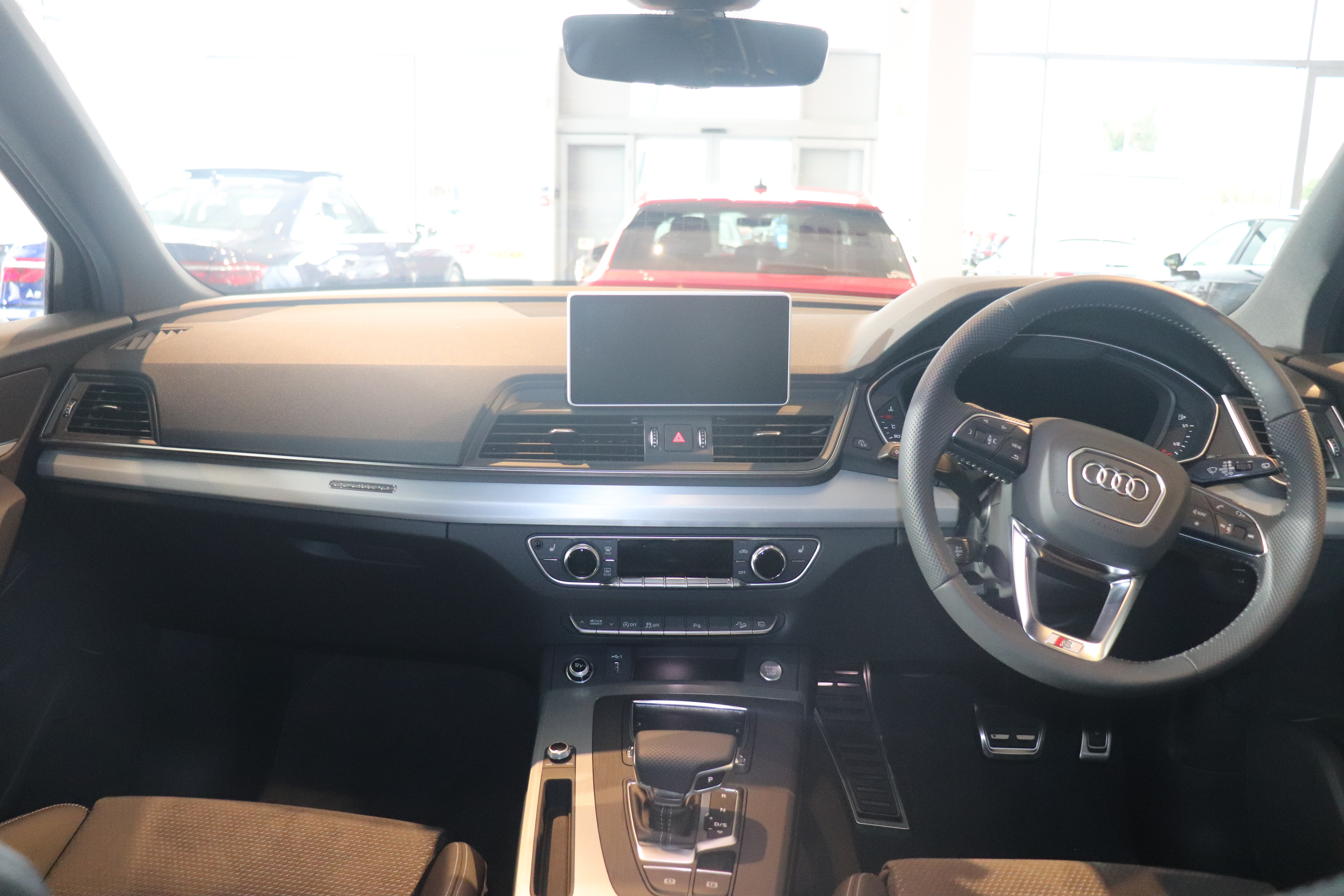 2018 Audi Q5 TDi Quattro Interior Taken in Stratford-upon-Avon